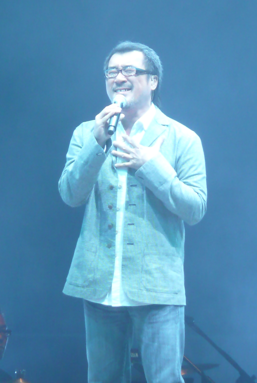 Jonathan Lee at Hong Kong in 2008